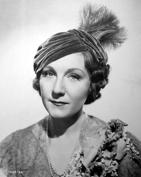 Promotional photograph of actor Judith Anderson